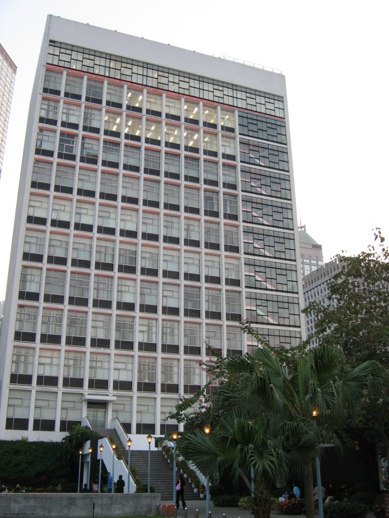 City Hall, Hong Kong